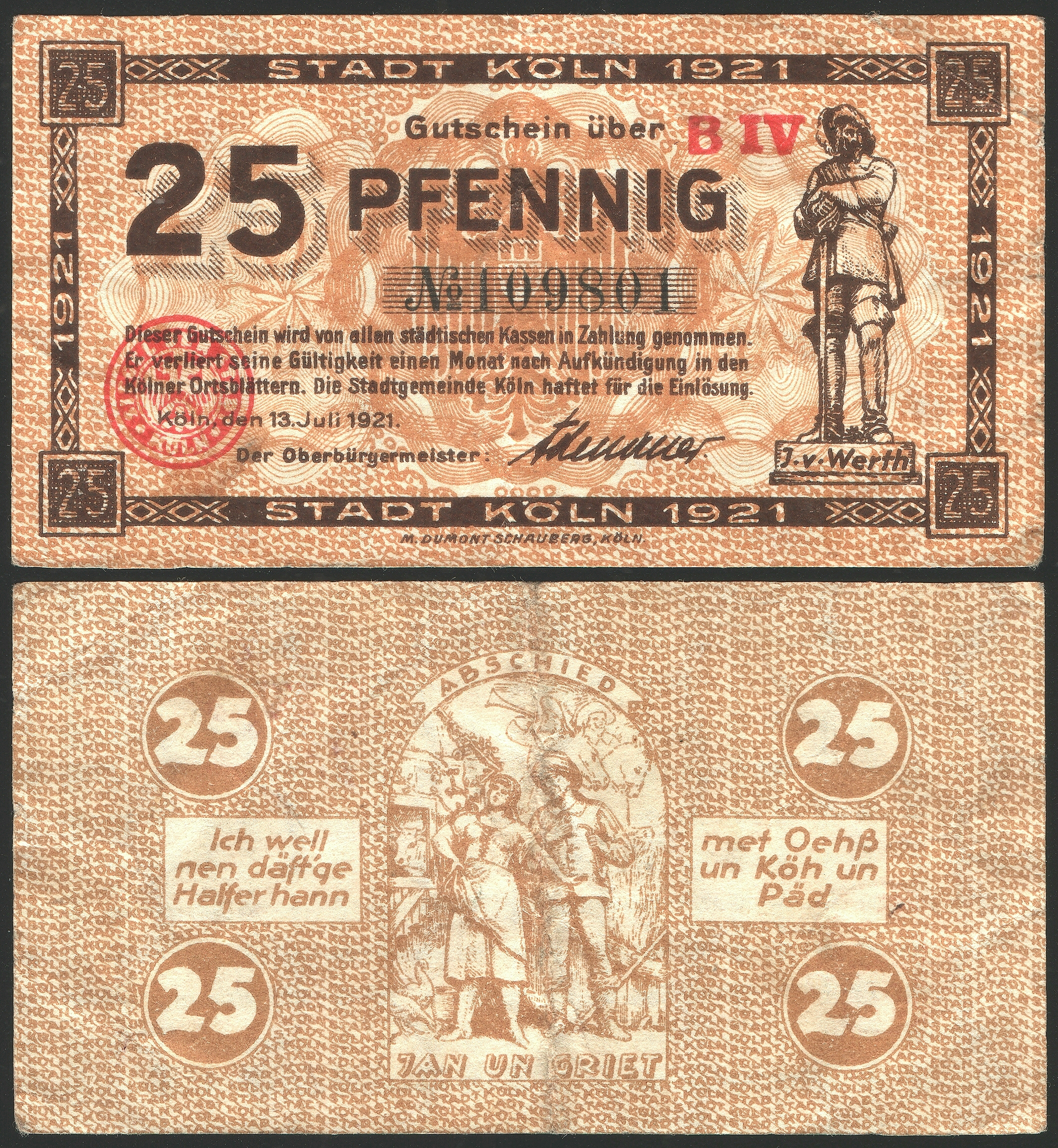 Notgeld (German for "emergency money" or "necessity money"), 1921, 25 Pfennig, issued by the city of Cologne, Germany. Jan von Werth, a German general of cavalry in the Thirty Years' War is depicted. Signed by Lord Mayor Konrad Adenauer, later the first chancellor of the Federal Republic of Germany.